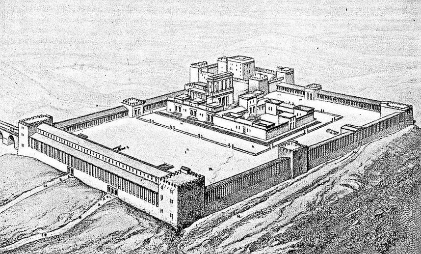 Reconstruction of Mont of "Herode's temple", from Volz Paul, Die biblischen Altertümer (Antiquités bibliques). 1914, Page 51, Plate 8